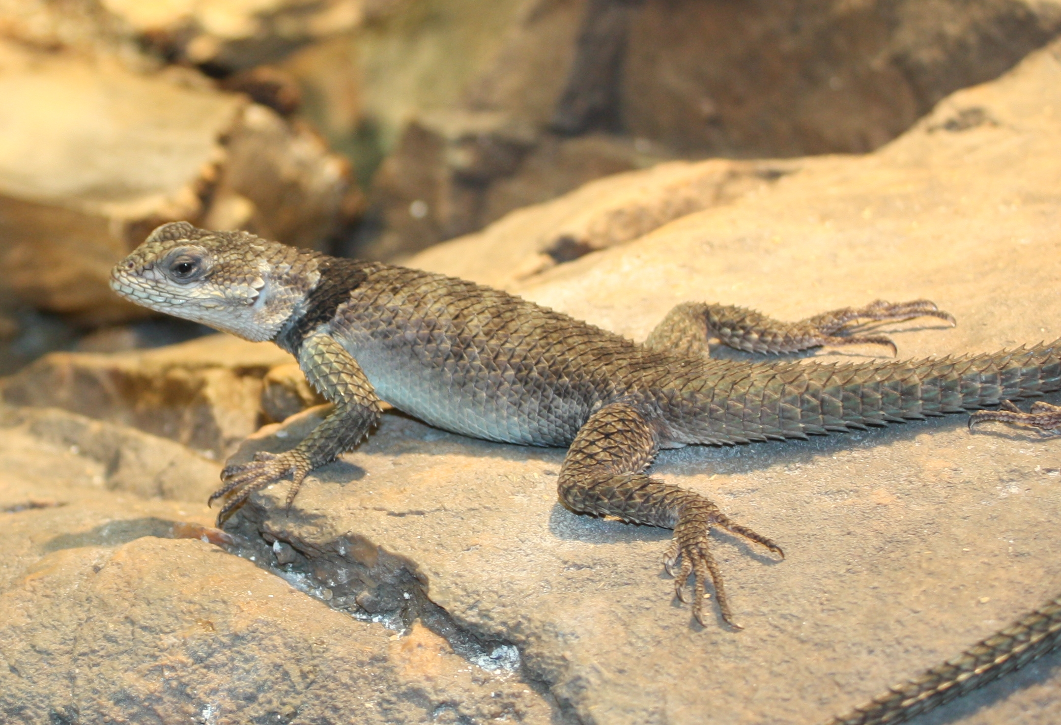 Blue spiny lizard Sceloporus serrifer cyanogenys at Cincinnati Zoo